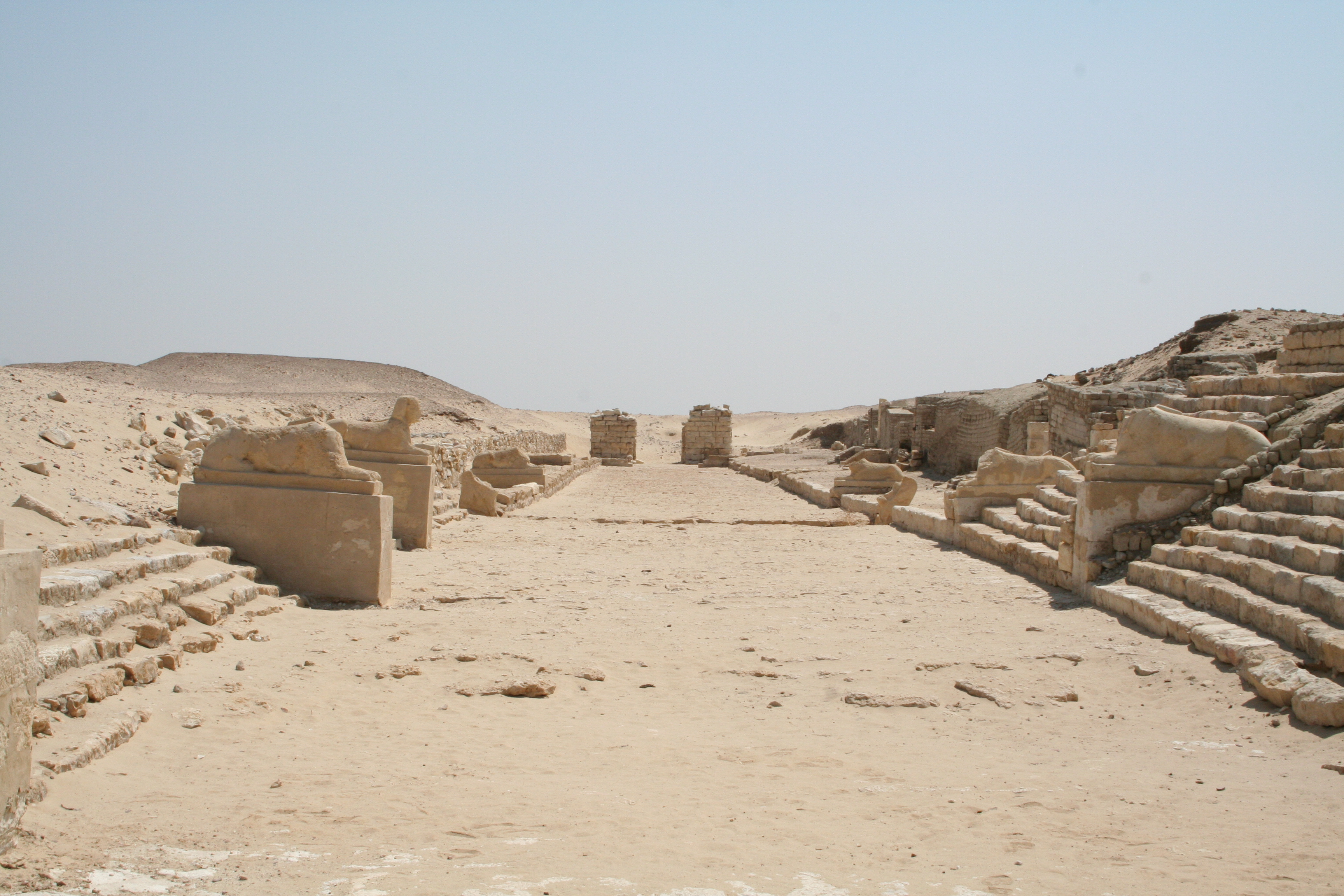 Processional way leading to the temple of Medinet Madi/Narmuthis